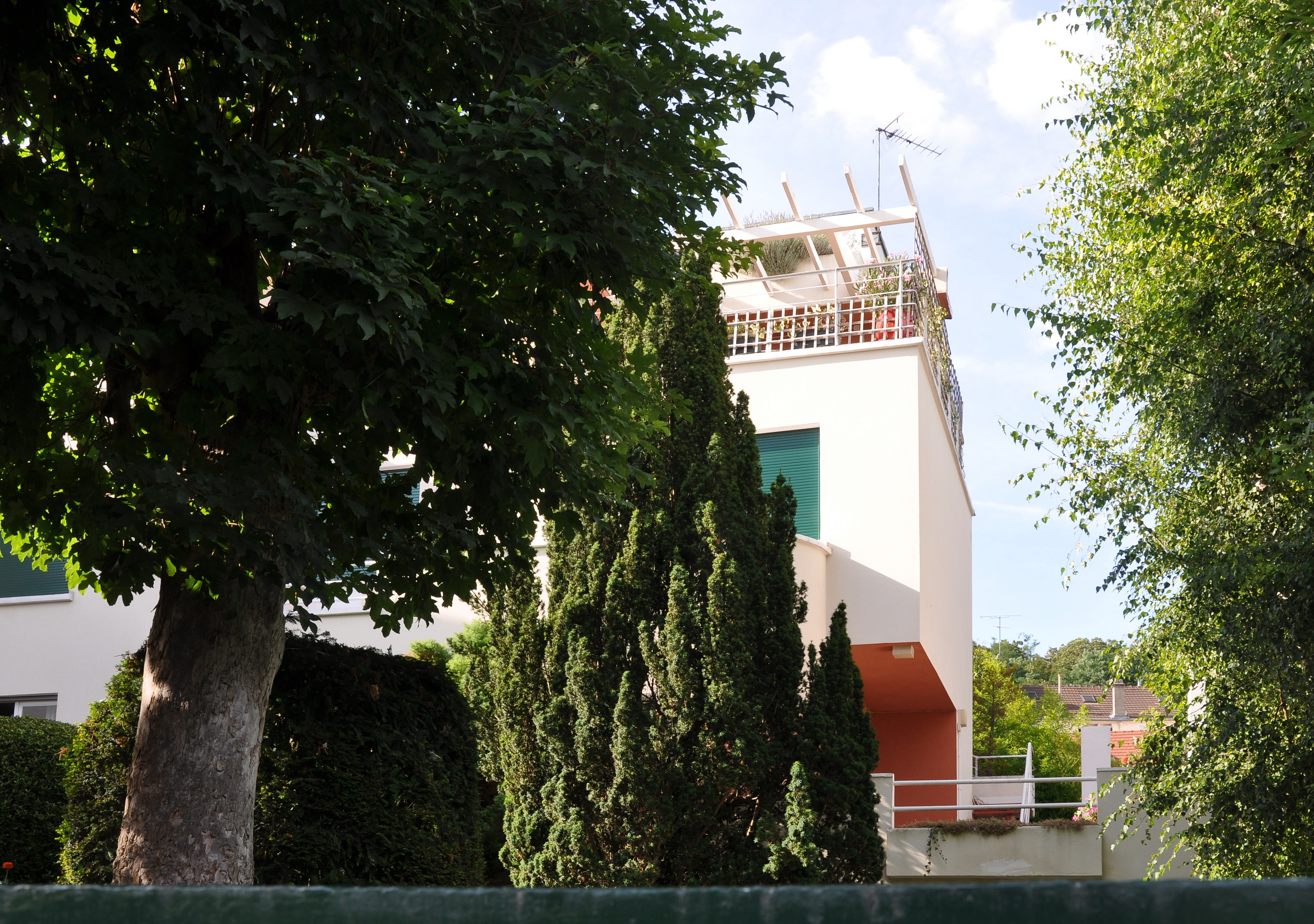 Villa Augier-Prouvost located at Ville-d'Avray in the department of Hauts-de-Seine, France. Built in 1925 by the architect Rob Mallet-Stevens this villa is listed as historical monument by the French Ministry of Culture.